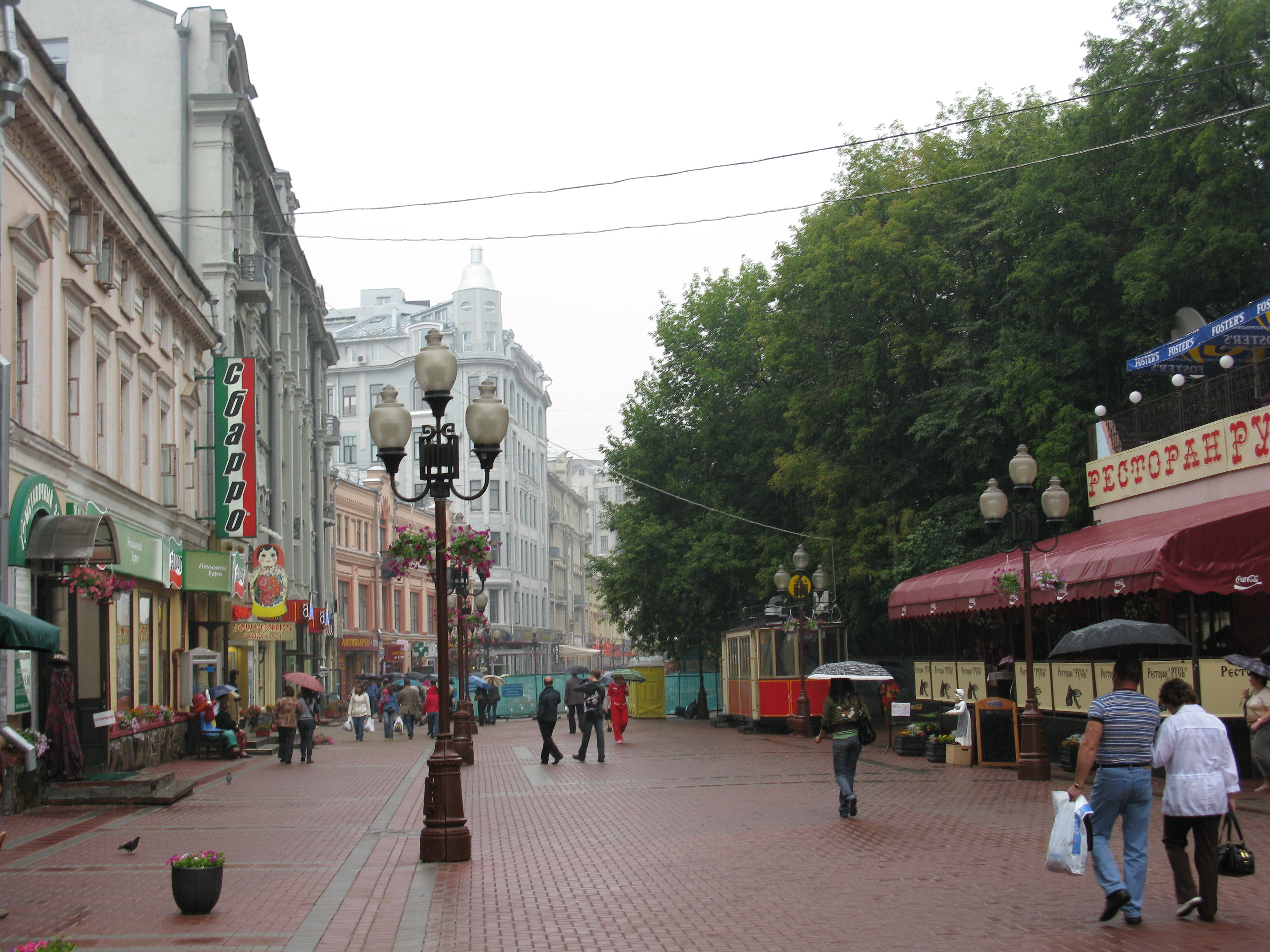 (Old) Arbat Street (ulitsa Arbat), Moscow, Russia